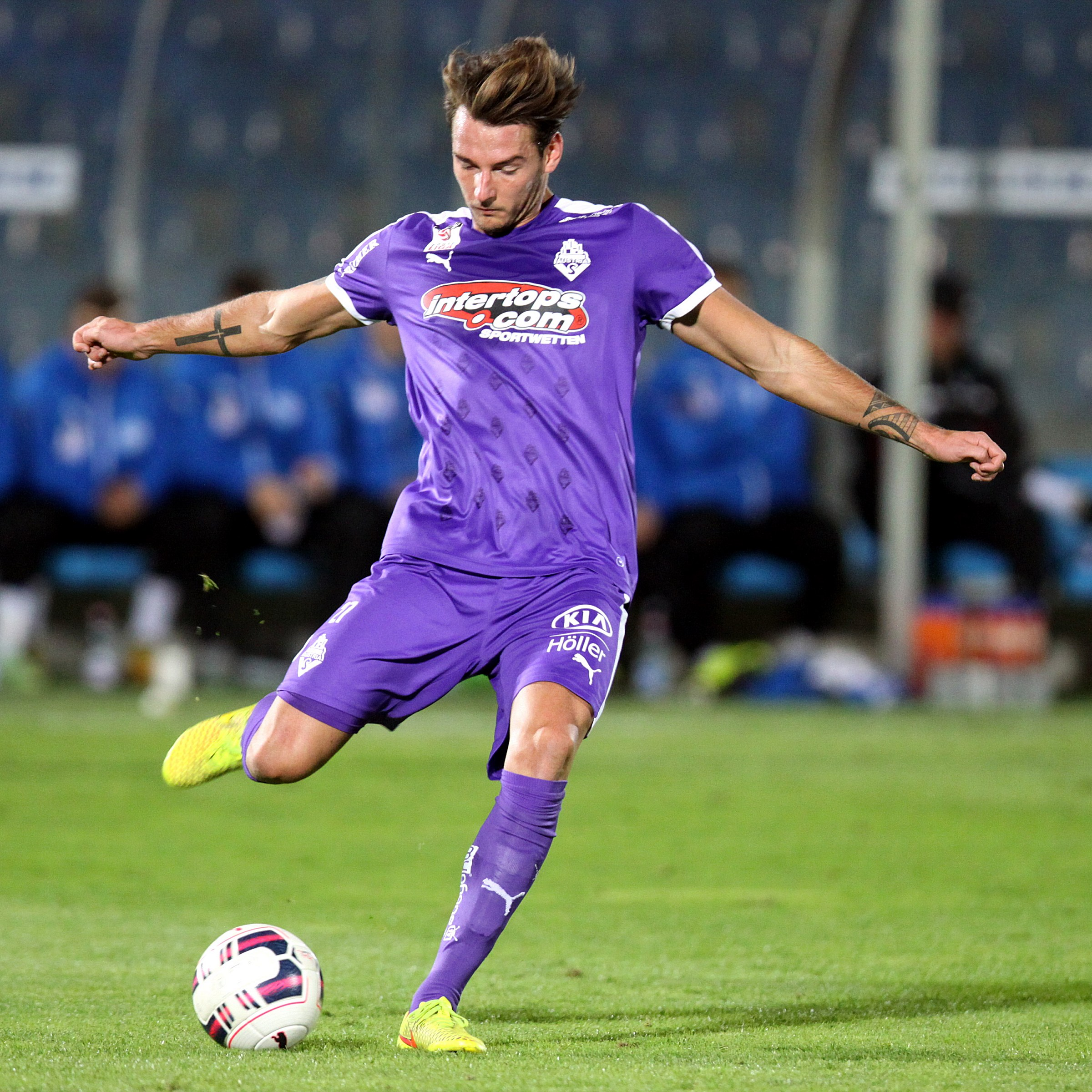 Match of the Erste Liga – SC Wiener Neustadt (blue/white shirts) vs. SV Austria Salzburg (purple shirts and black/white shirts) 2–0 (1–0) on 2015-10-02 in the Stadion in Wiener Neustadt – The photo shows Max Müller.